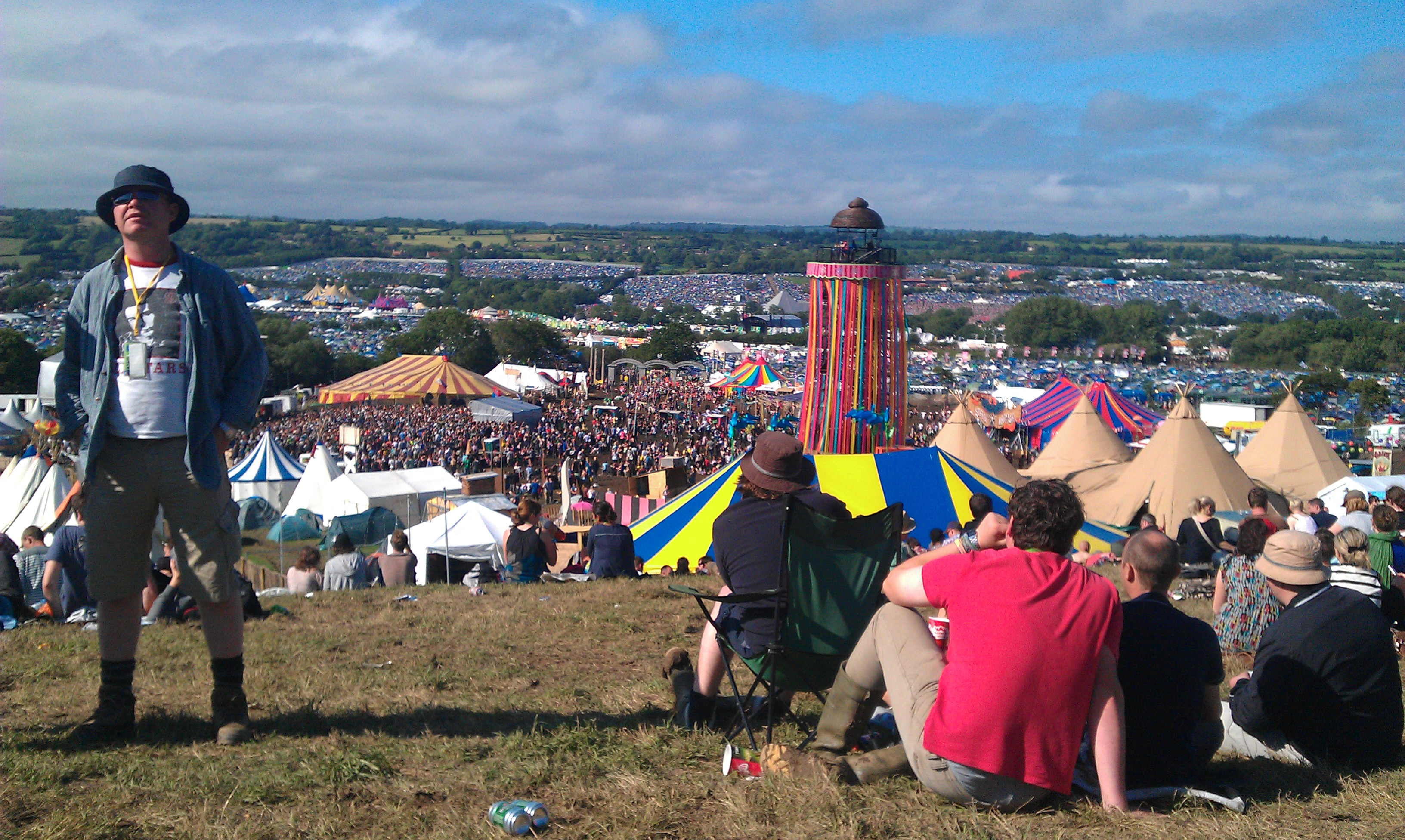 A view of the Glastonbury site over the park stage, 2011.